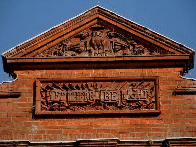 Let there be light in Dorking high street I wish I knew why it is up there.